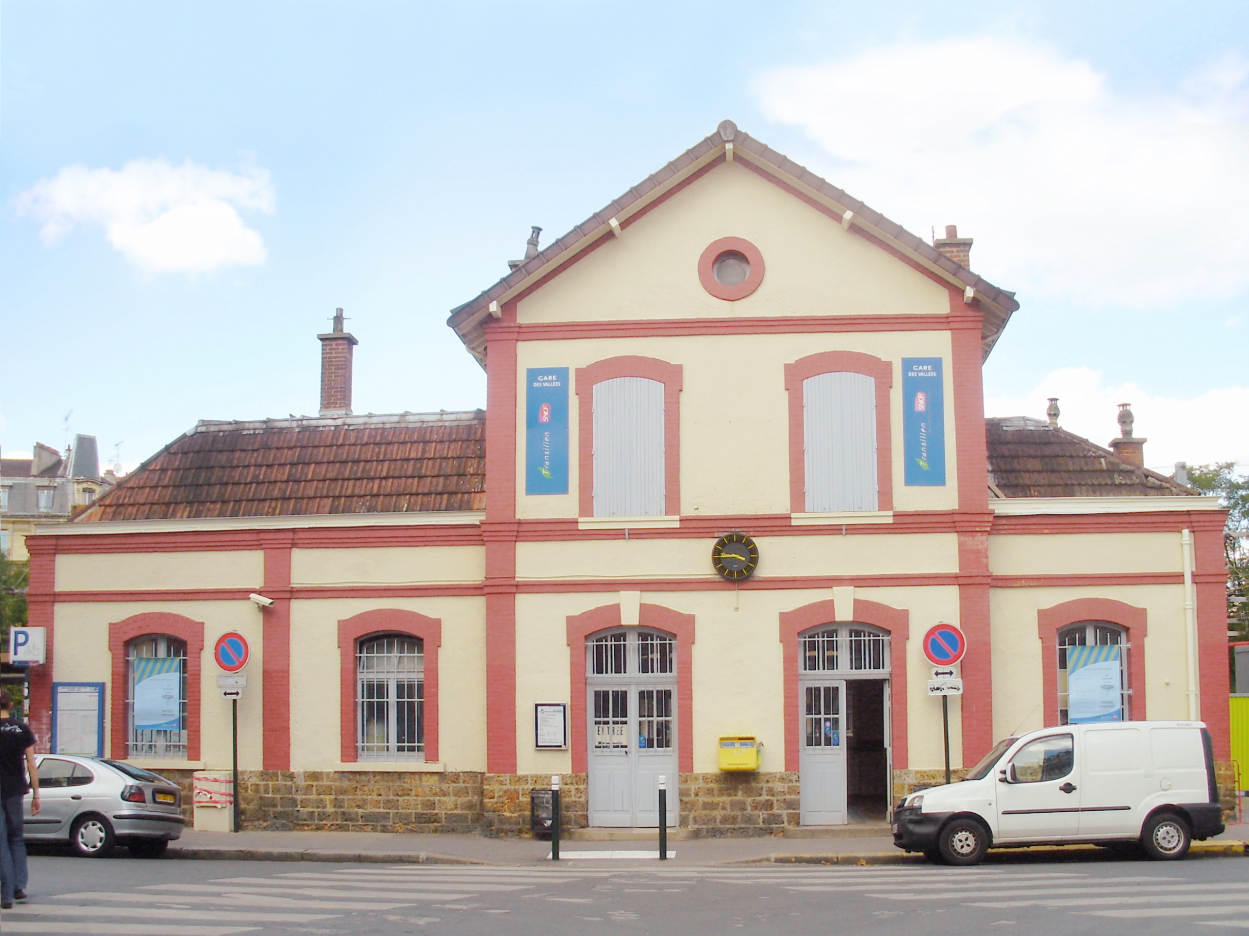 Les Vallées station, in La Garenne-Colombes, Hauts-de-Seine, France (station building)